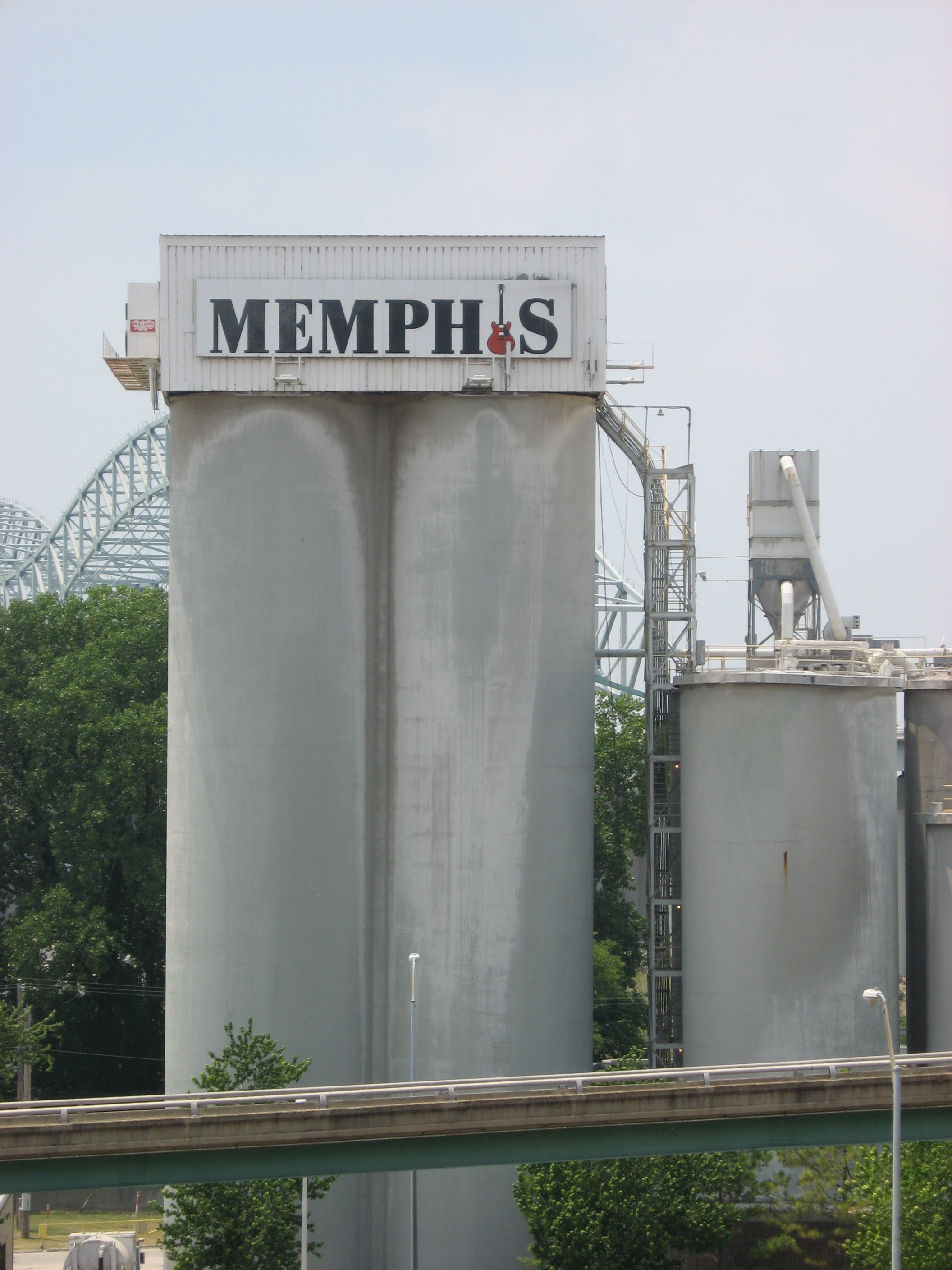 Cement silos in Memphis, USA.